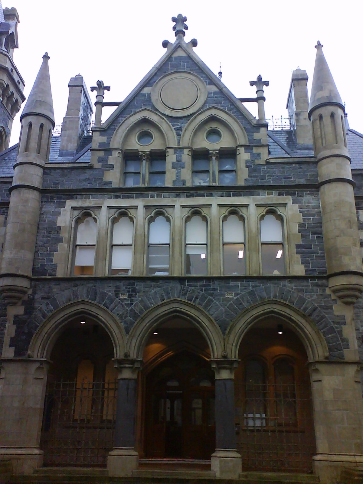 The Courthouse, on Teeling Street, Sligo, County Sligo, Ireland